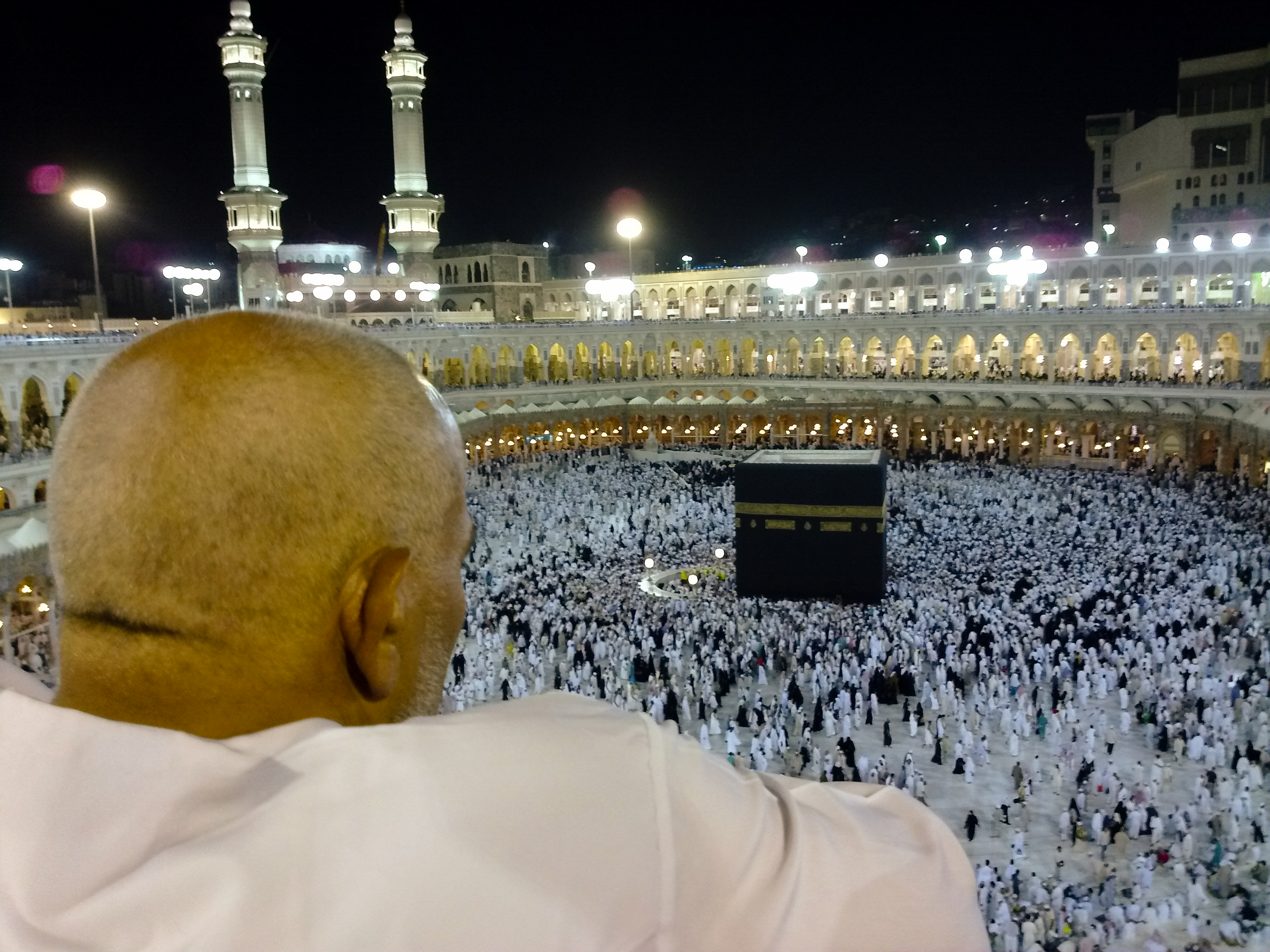 A worshipper looks down at the Kaaba after night prayers on the roof of the Masjid al-Haram.